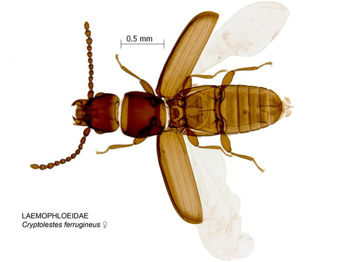 Cryptolestes ferrugineus, cleared female